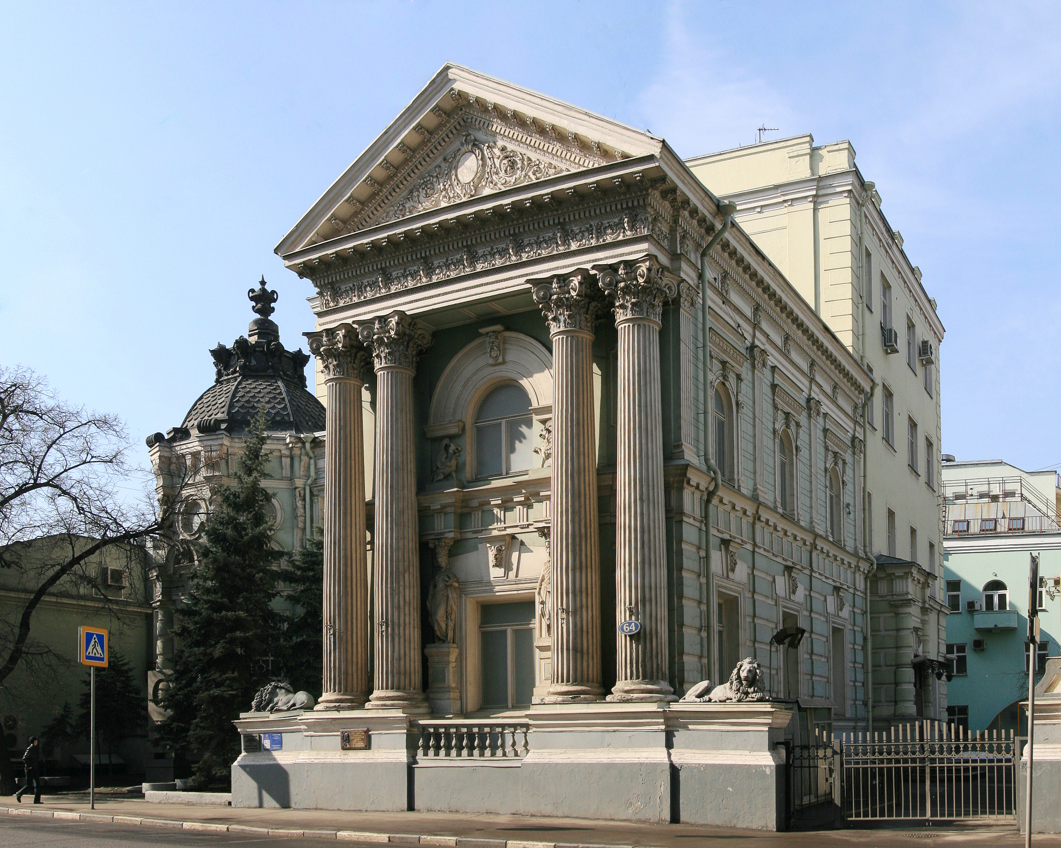 Margarita Rekk Mansion, Pyatnitskaya Street 64, Moscow, built 1897